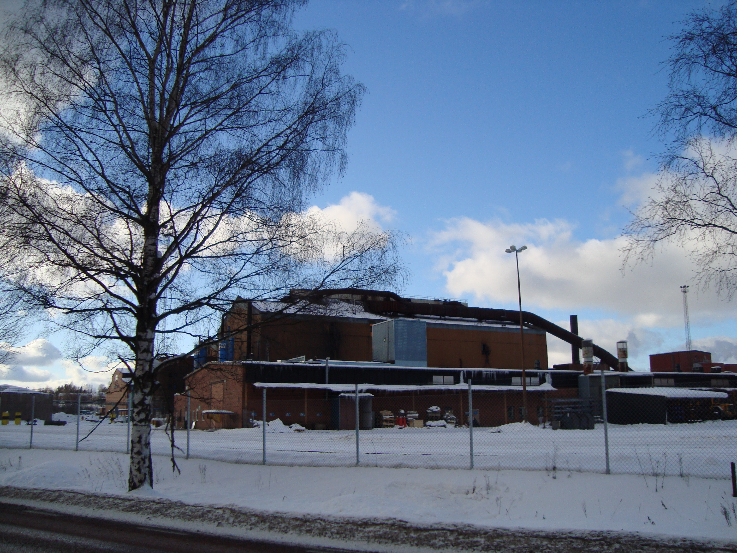 Ovako Steel's Steel Works, Hofors, Sweden